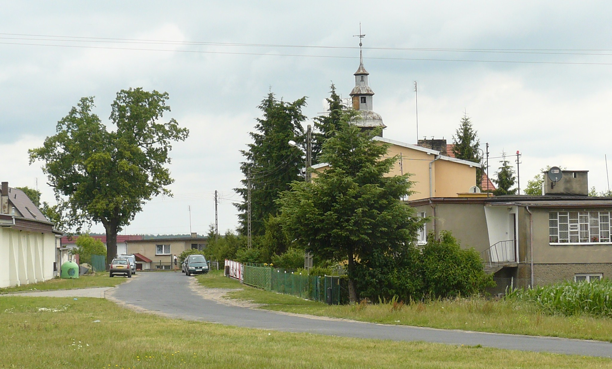 Podanin around Chodziez.